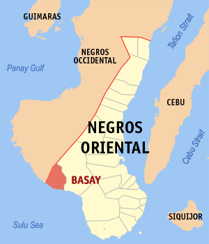 Map of Negros Oriental showing the location of Basay